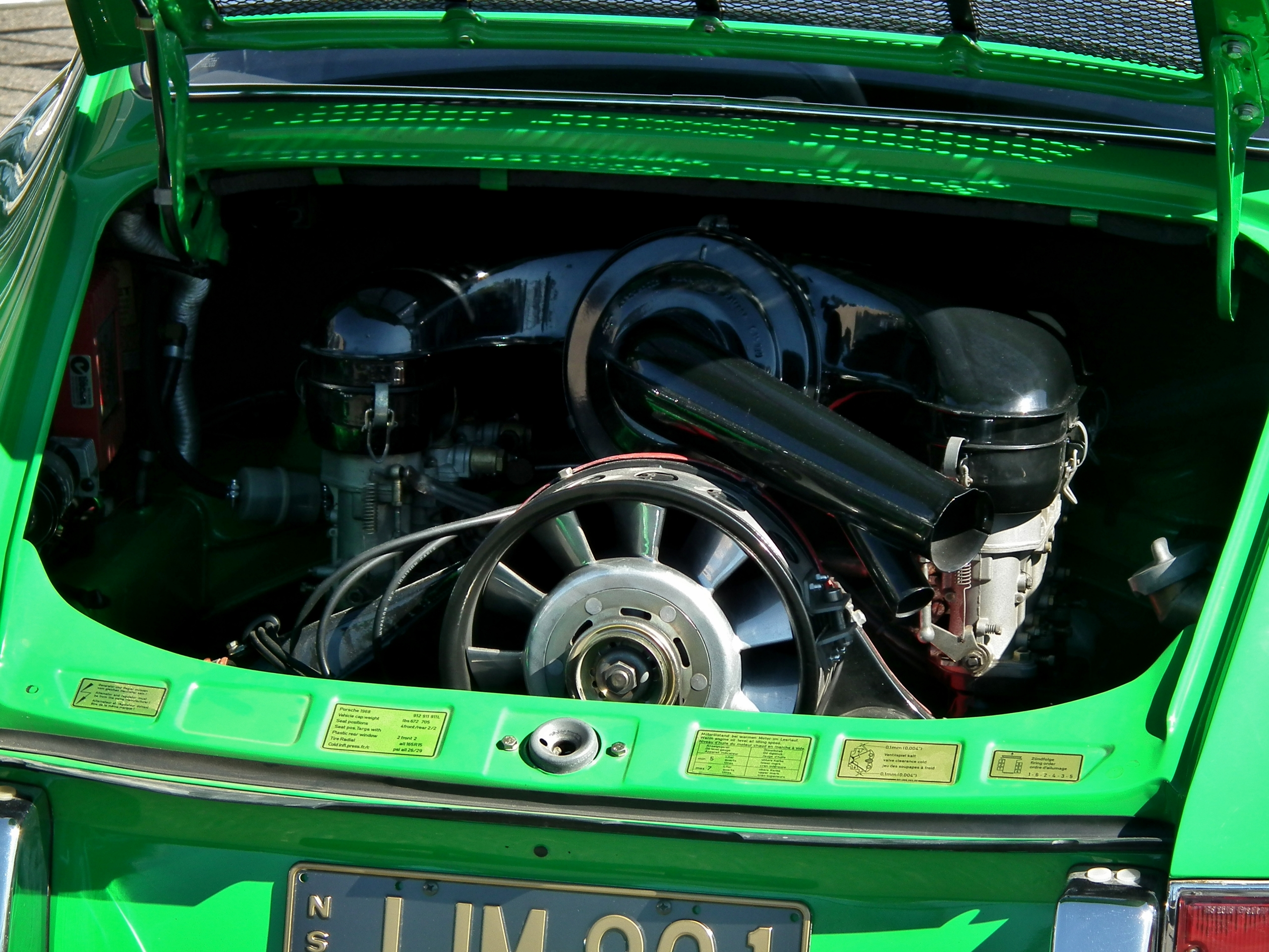 1968 Porsche 911 S coupe engine. Taken at the 2013 Shannon's Eastern Creek Classic display day, held at Sydney Motorsport Park.